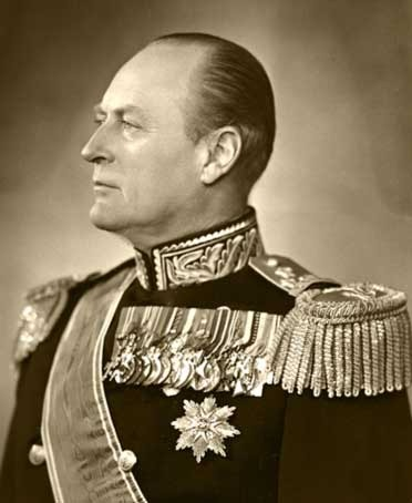 King Olaf V of Norway, 1957